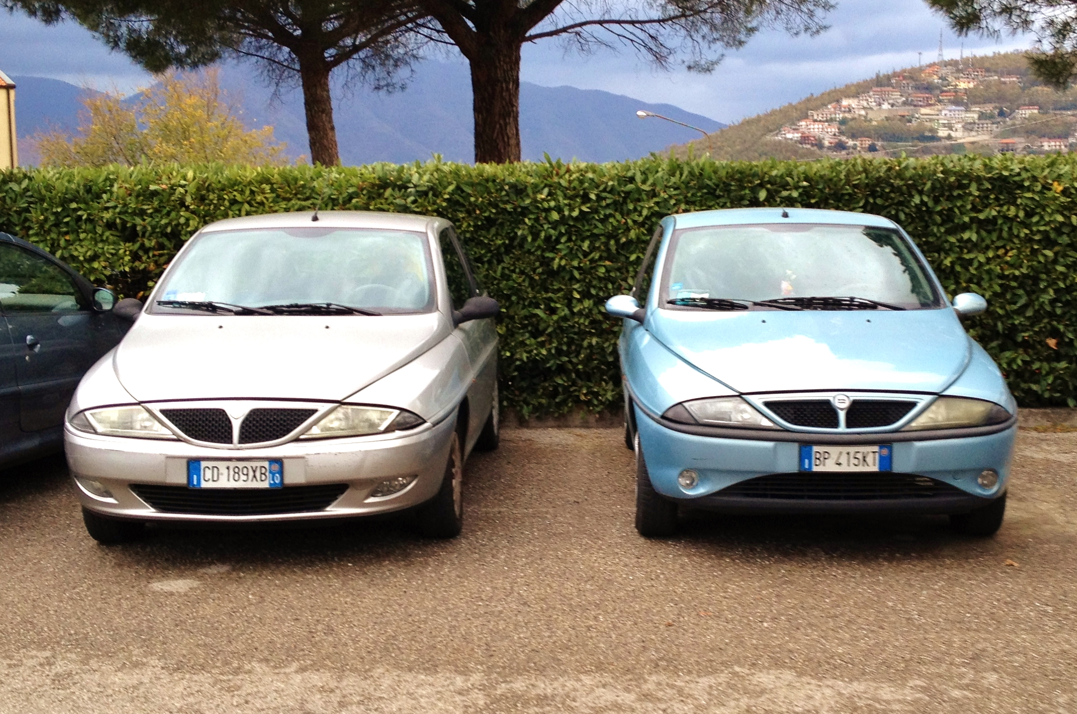 Lancia Y pre and post facelift